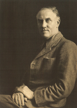 Depicted person: Hans Heysen – Australian artist